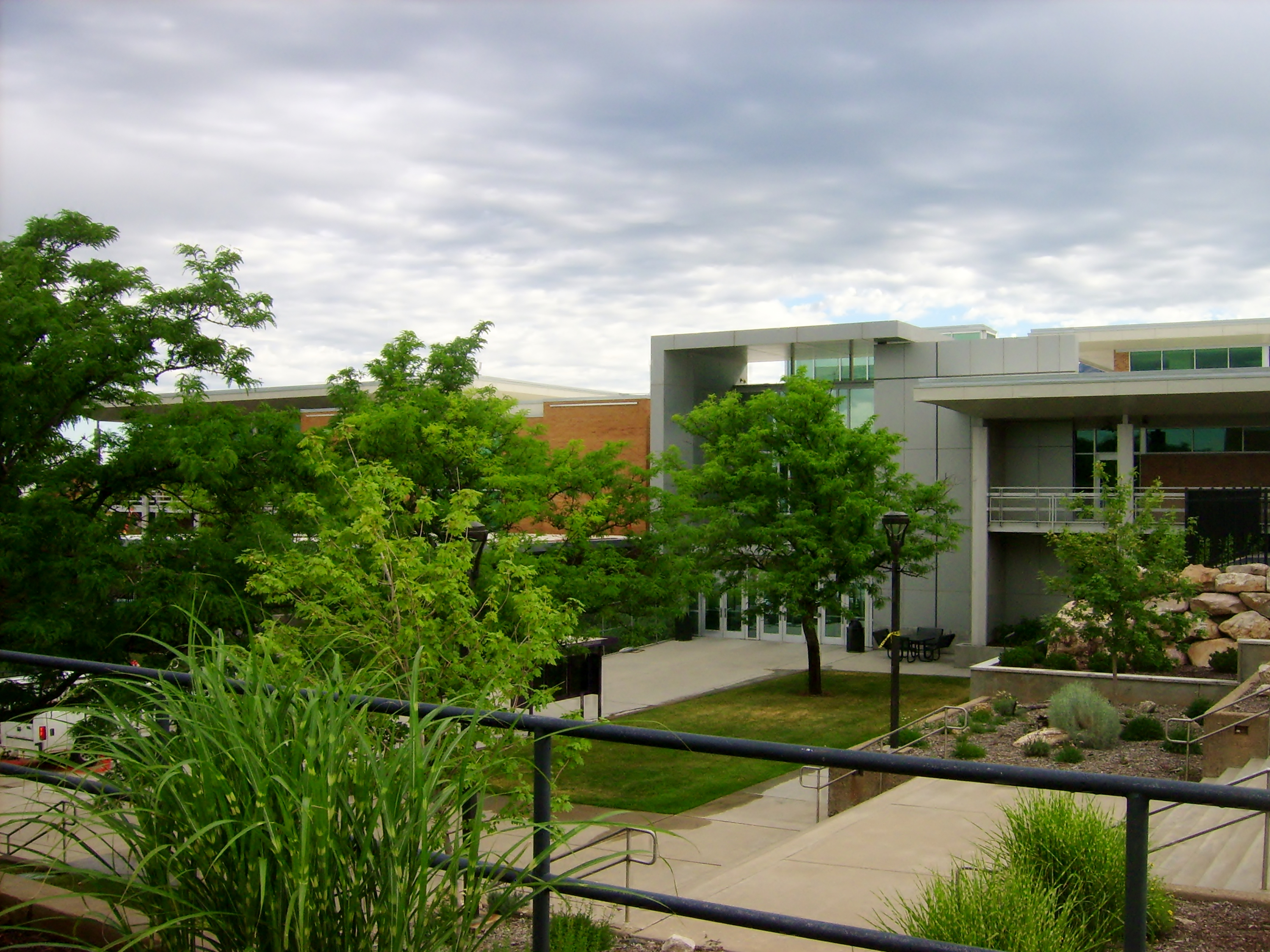 Weber State University Shepherd Student Union